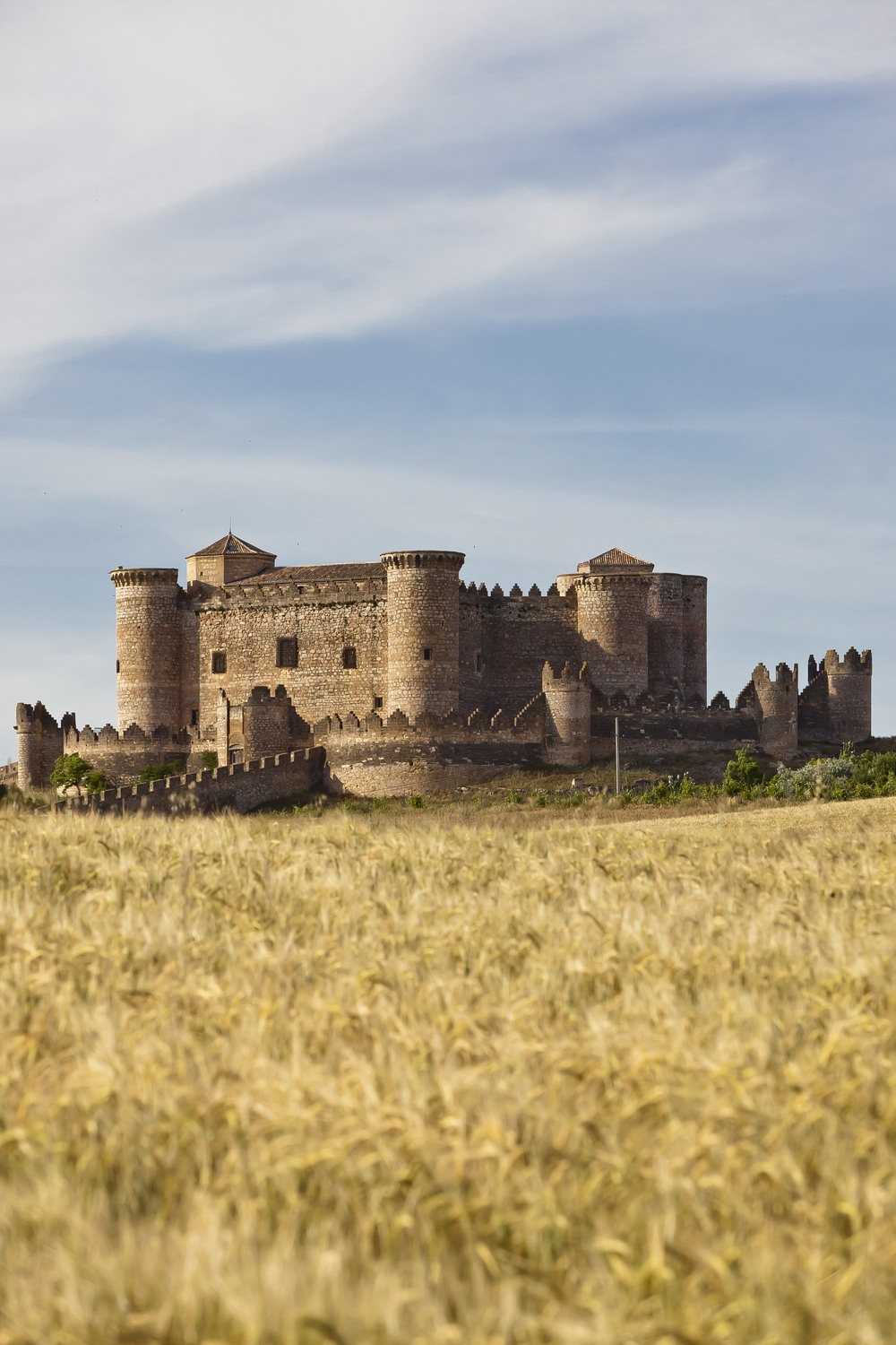 Castillo de Belmonte